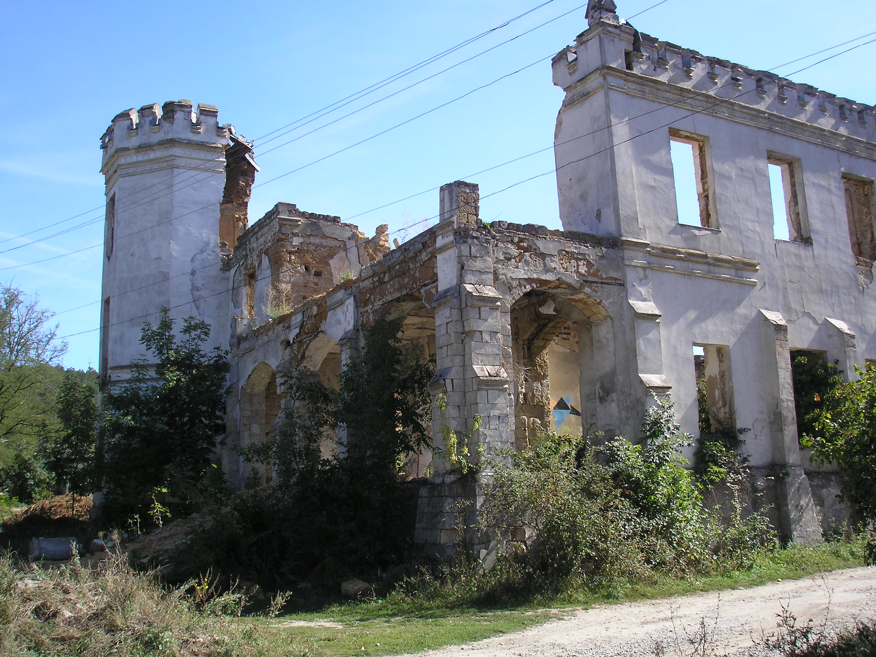 Kessler's house in the village Pionerskoe, Simferopol district, Crimea